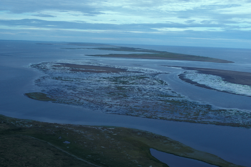 Barrier Islands and Lagoons at Cape Espengerg - Kotzebue Sound[1]